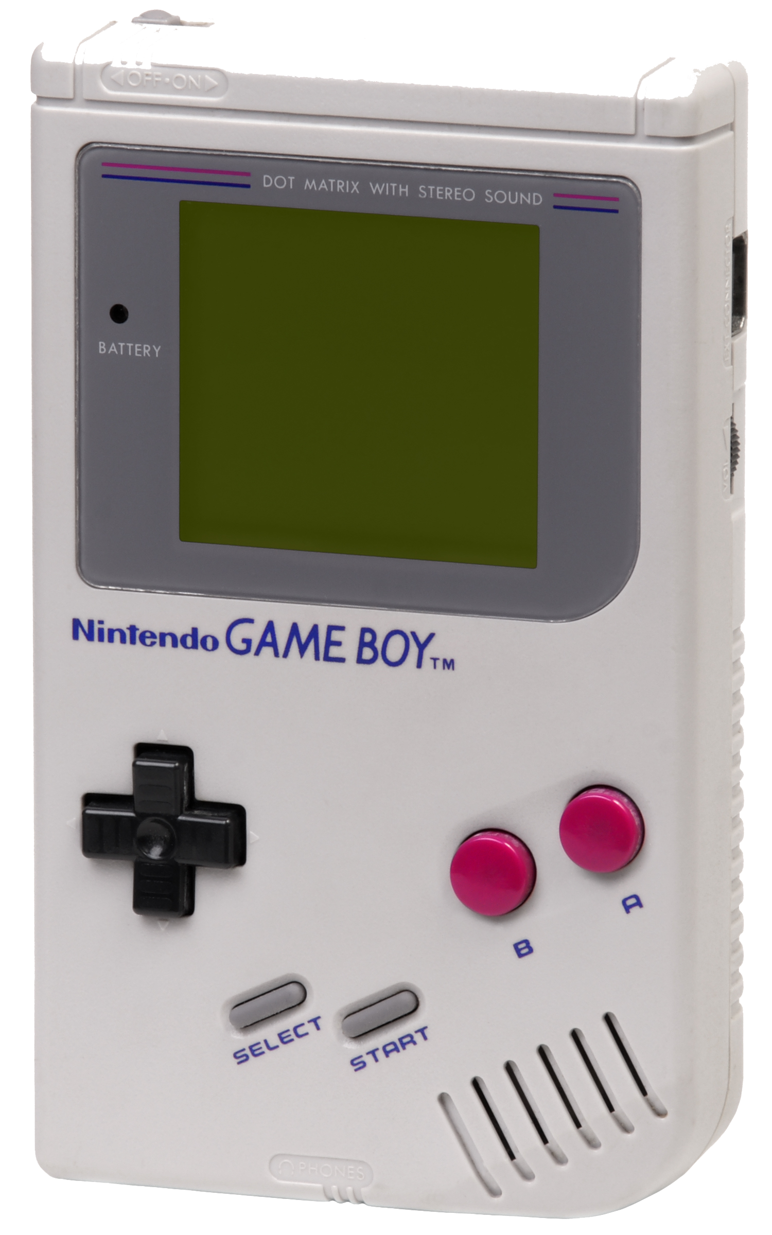 An original Nintendo Game Boy.